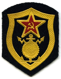 Emblem of the soviet armed forces 1960 to 1991, Soviet Army (military branches, service branches or armed services), sleeve badge (appliquéd) right hand upper arm (dress uniform/ parade uniform) to be used for the ranks OR1 to 8, and WO1 to 2, here: – “Military construction troops”, design 1985.